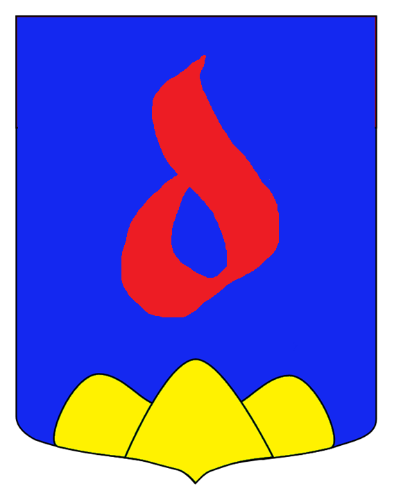 Amadio shield